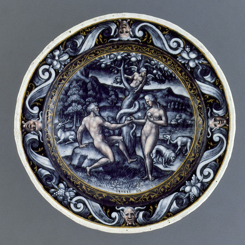 France, Limoges, circa 1560 Furnishings; Serviceware Grisaille enamel, flesh tones, and gold on copper William Randolph Hearst Collection (48.2.9) Decorative Arts and Design